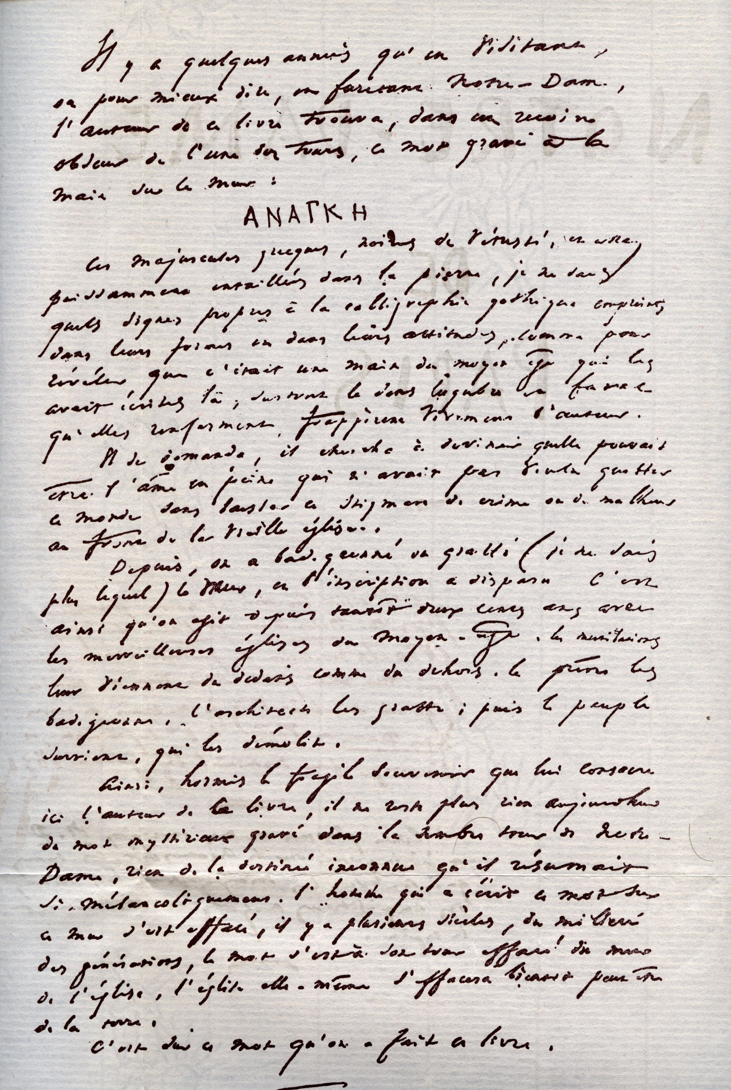 First page of the manuscript of Notre-Dame de Paris of Victor Hugo. Copy from Encyclopédie Autodidactique Quillet, Tome 3, 1960. Original in the Bibliothèque Nationale.